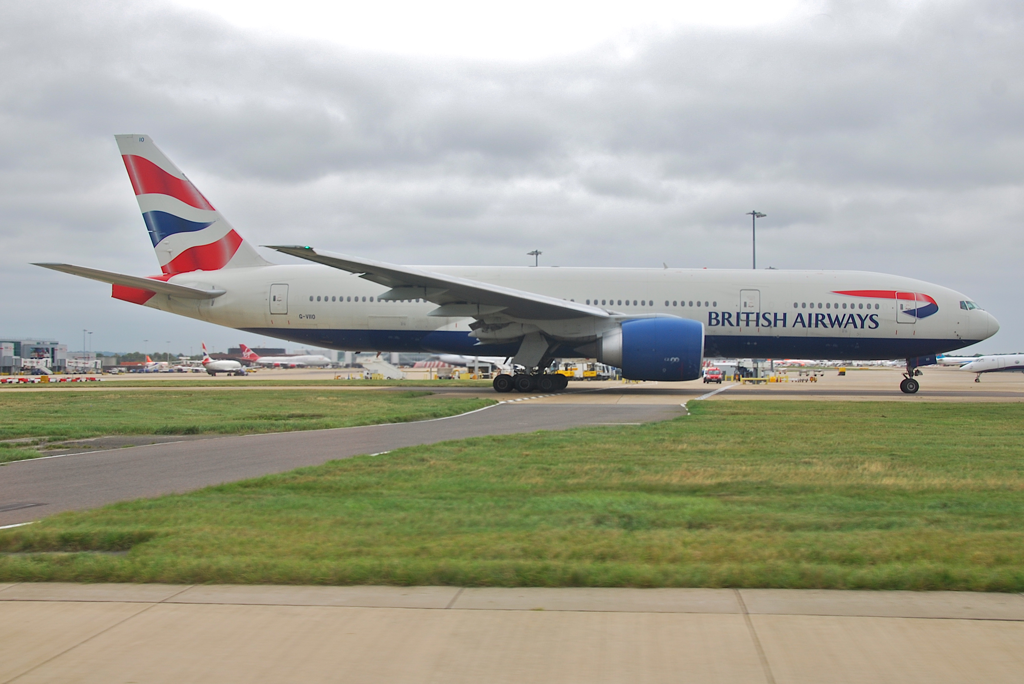 British Airways Boeing 777-236ER; G-VIIO@LGW;04.08.2009/549ci